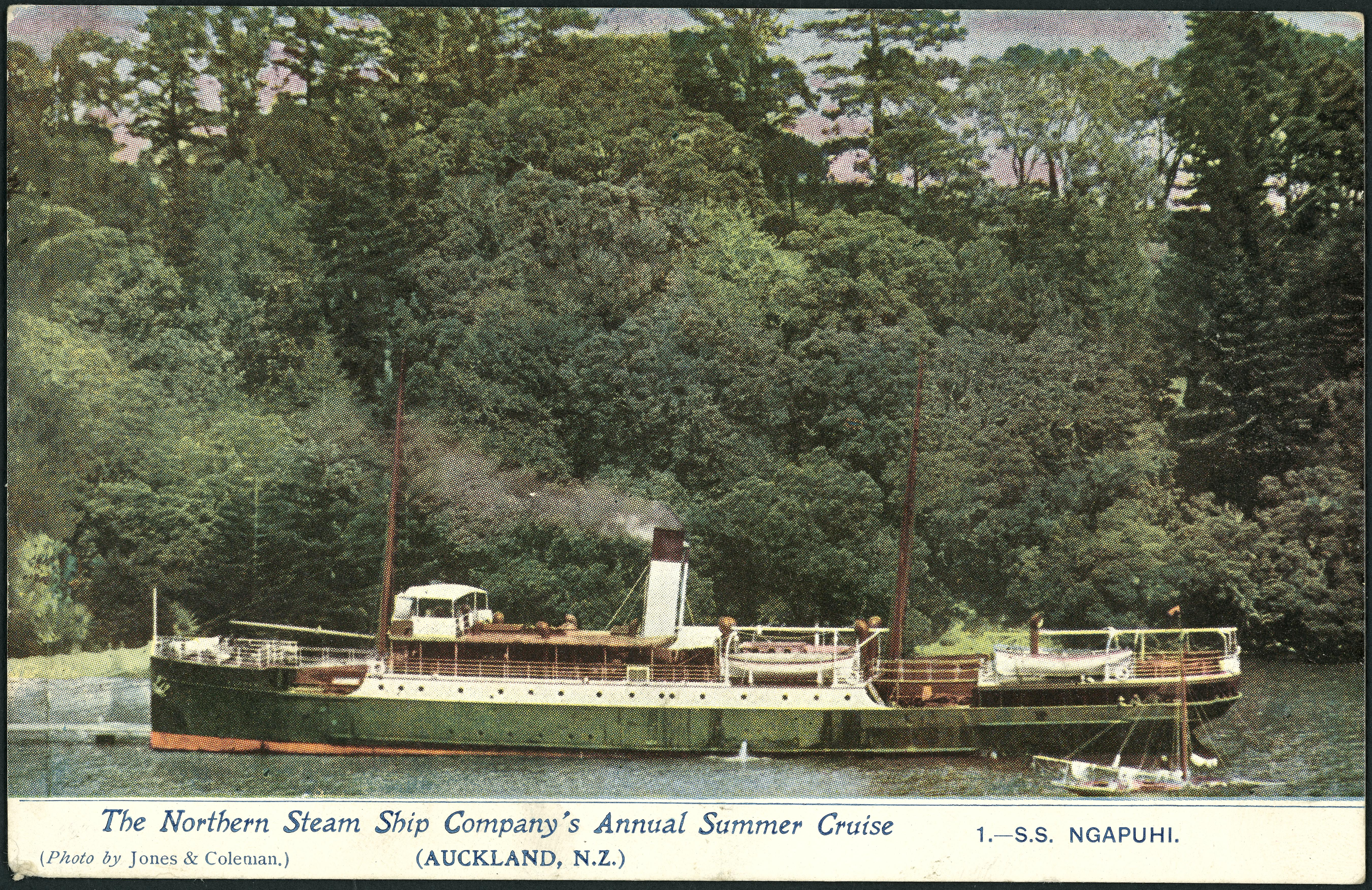 Shows the S S Ngapuhi berthed at a low pier, with bush in the background. The National Maritime Museum website says: "The Summer Cruise began Friday night and went through to the next Saturday and cost 7 pounds. The first summer cruise was held in 1904 and they continued until 1908. They were truly the high point of the summer, combining picturesque scenery with activities, excellent food and entertainment. On-board facilities included a library and a darkroom for processing photographs. The NGAPUHI was used for this venture, normally on the Whangarei run carrying passengers and cargo, but spruced up in preparation for the Summer Cruise. The cruise took in Great Barrier, the Hen & Chicken Islands, Whangarei, (including trips to Whangarei Falls and the Kamo Mineral Pools), the Bay of Islands, Whangaroa Harbour, Totara North, Mangonui, Doubtless Bay, Kawau Island, Waiwera and home again". Quantity: 1 colour photo-mechanical print(s) on postcard. Physical Description: Oleograph on postcard, 89 x 138 mm. Northern Steam Ship Company Ltd. Northern Steam Ship Company :The Northern Steam Ship Company's annual summer cruise. 1.- SS Ngapuhi. Photo by Jones & Coleman (Auckland, N.Z. [Postcard].. Ref: Eph-A-SHIP-1907-01. Alexander Turnbull Library, Wellington, New Zealand.